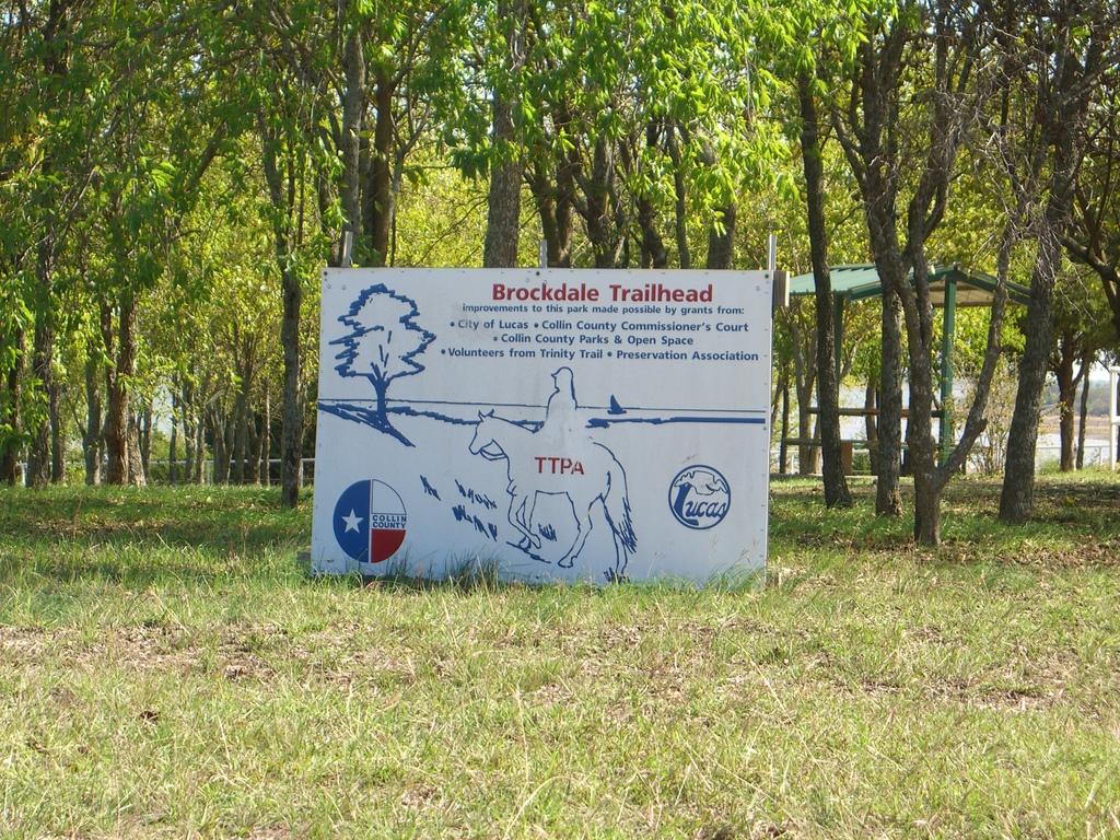 The sign for the Trinity Trails Equestrian/Hikinh Trail